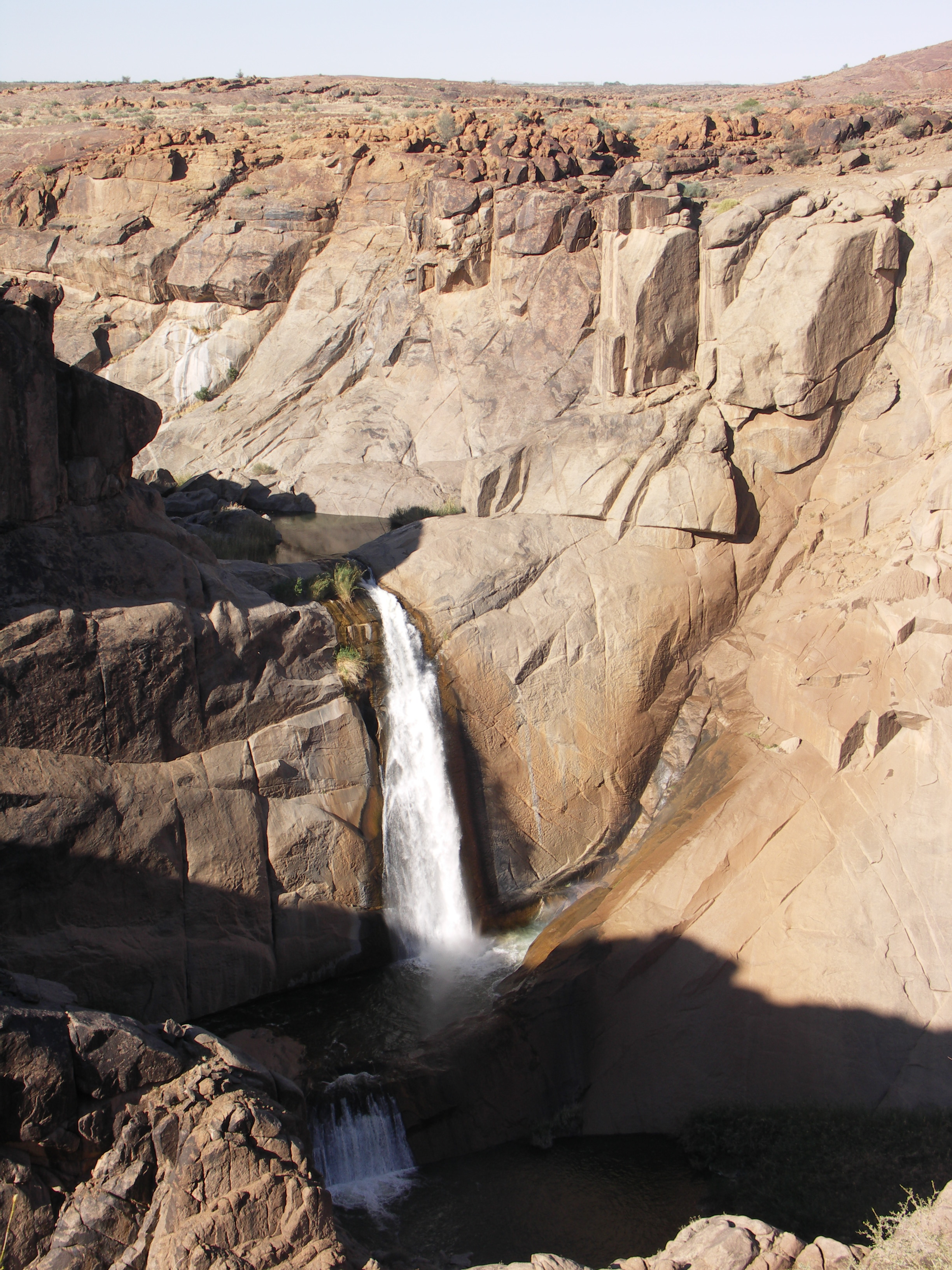 Twin Falls on the Orange River in the Augrabies National Park, Northern Cape, South Africa. It is located about 2km from the main Augrabies Falls along the Dassie Nature Trail, on a different branch of the Orange River (The river branches into a number of streams above the Augrabies Falls and those branches rejoin again a couple of km below the falls). Photo was taken from Arrow Point.